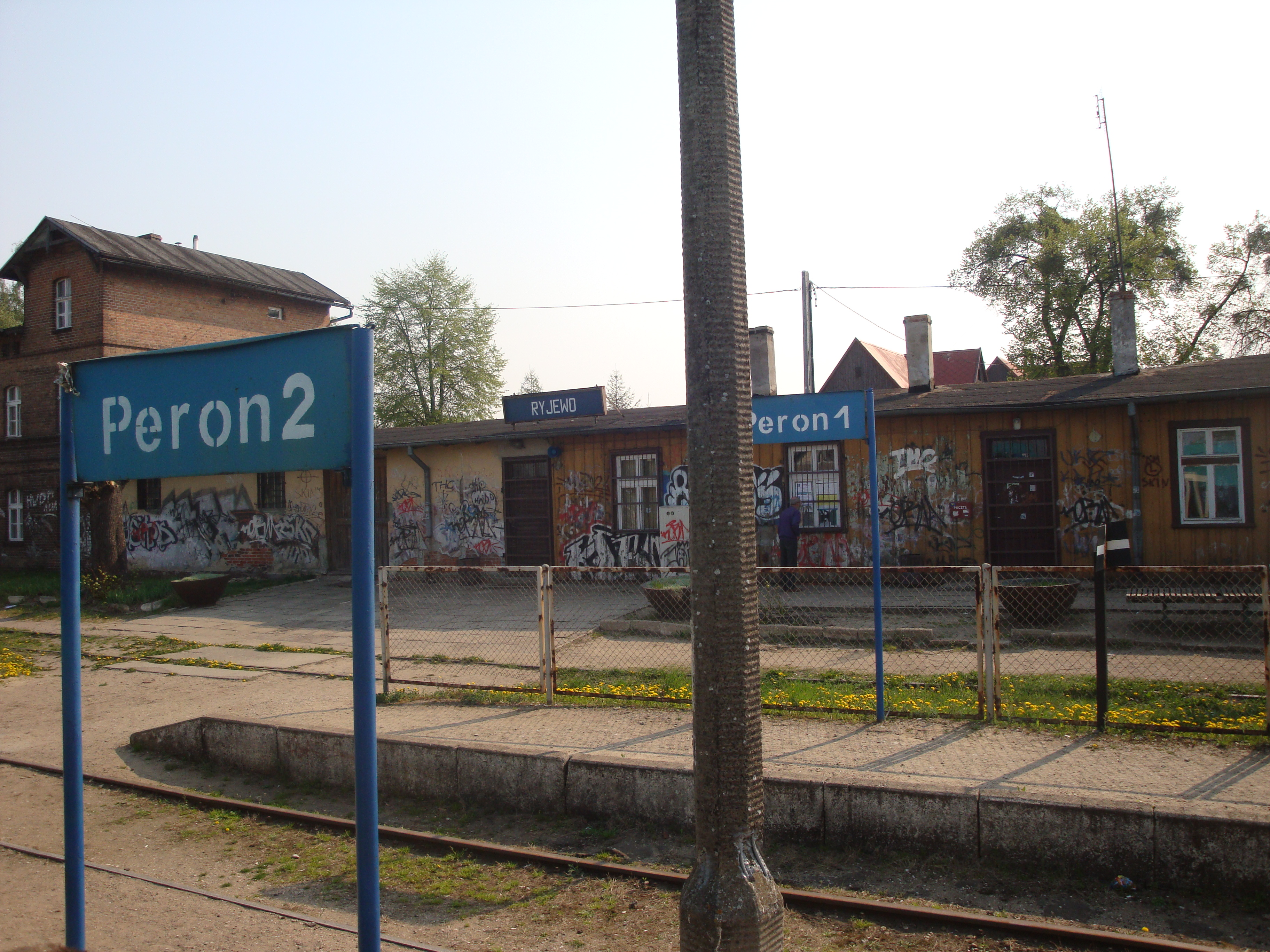 Train station in Ryjewo, Poland